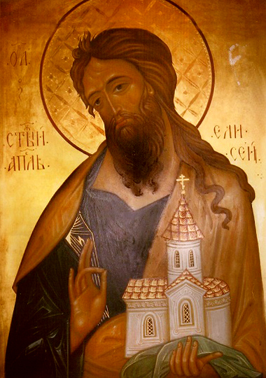 Apostol St. Eeliseus, Patron of the Caucasian Albanian Apostolic Autocephalous Church, modern icon, Gabala, Azerbaijan.